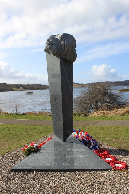 Soldiers Memorial, Arisaig Memorial to Czech and Slovak soldiers who trained here in 1941-1943 as S.O.E. agents.